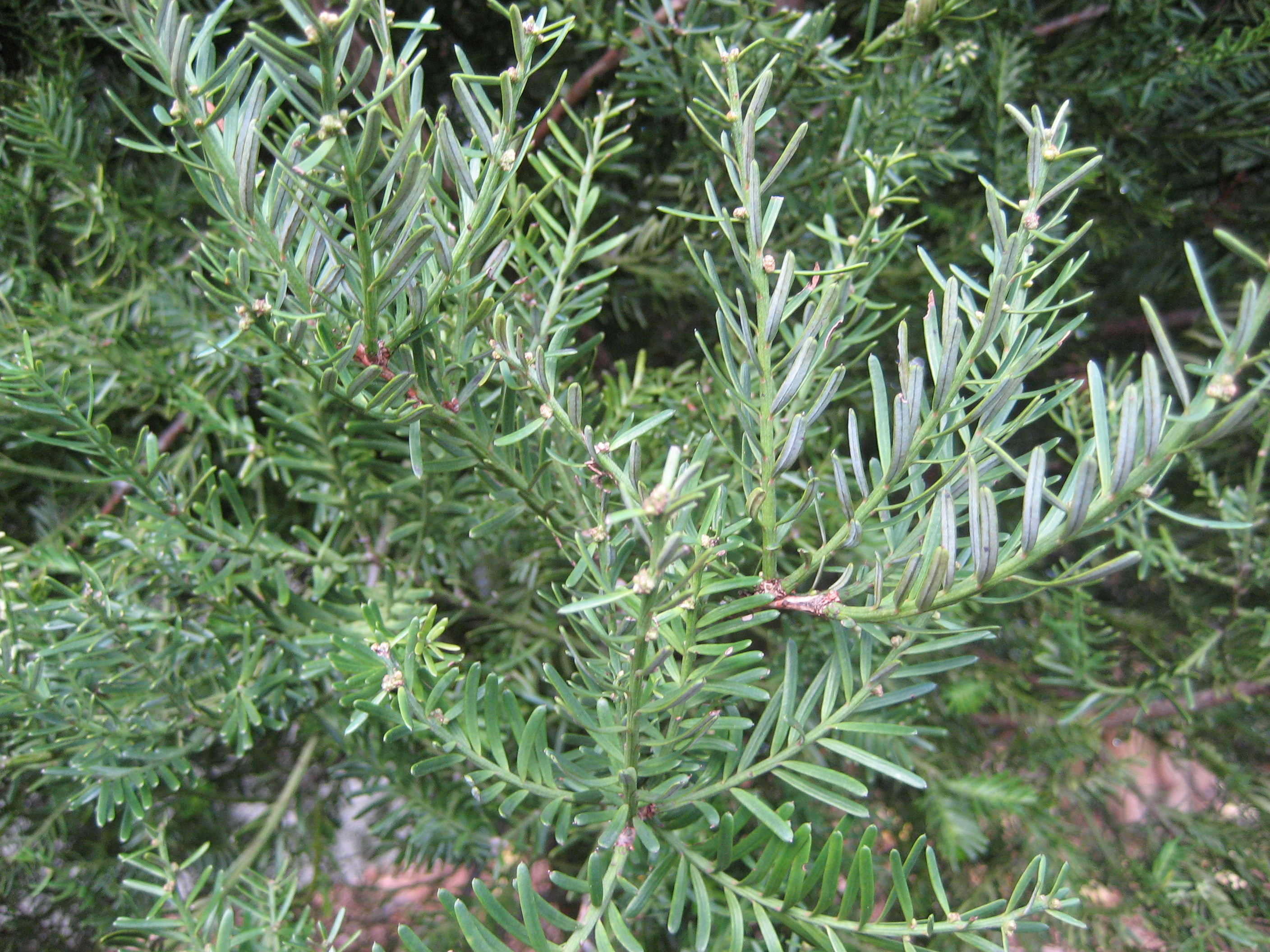 adult foliage of a Mataī, Prumnopitys taxifolia, Podocarpaceae. Endemic to New Zealand. The adult leaves are dark green, somewhat glaucous above, glaucous below, 10-15 x 1-2 mm.